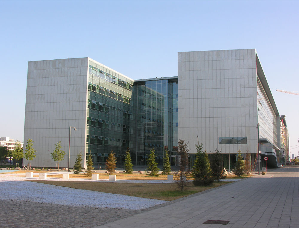 IT-University, Copenhagen